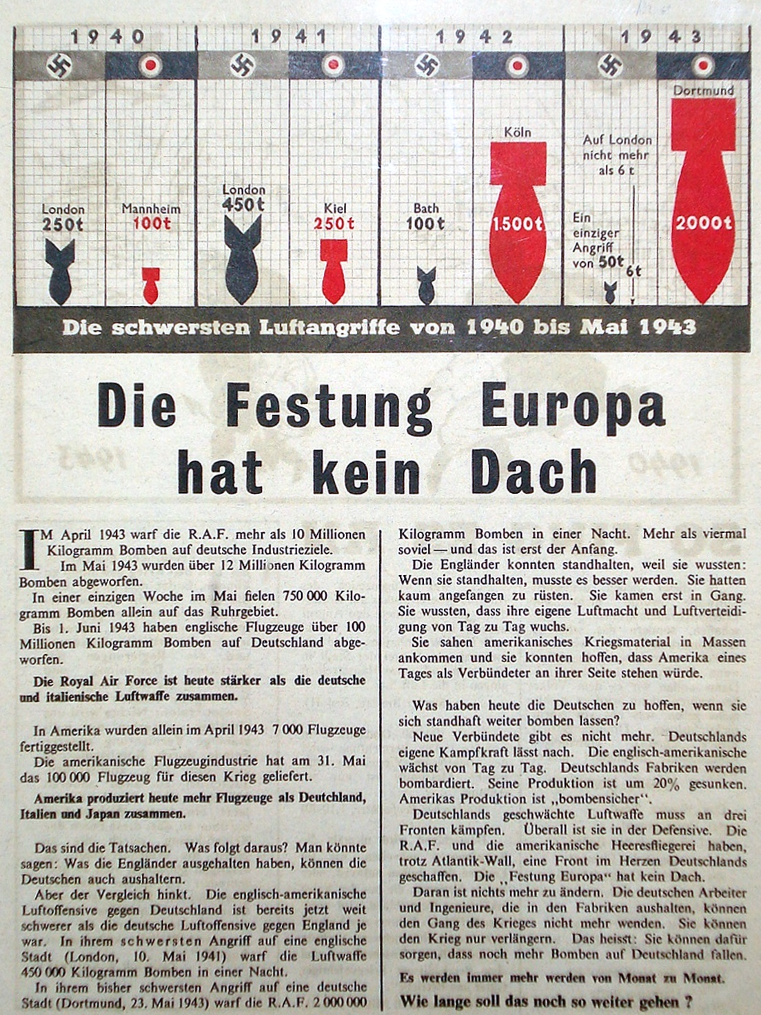 British propaganda leaflet dropped over Essen (Germany) after an RAF bombing raid in March 1943. The main title says "Fortress Europe has no roof". Imperial War Museum, London.